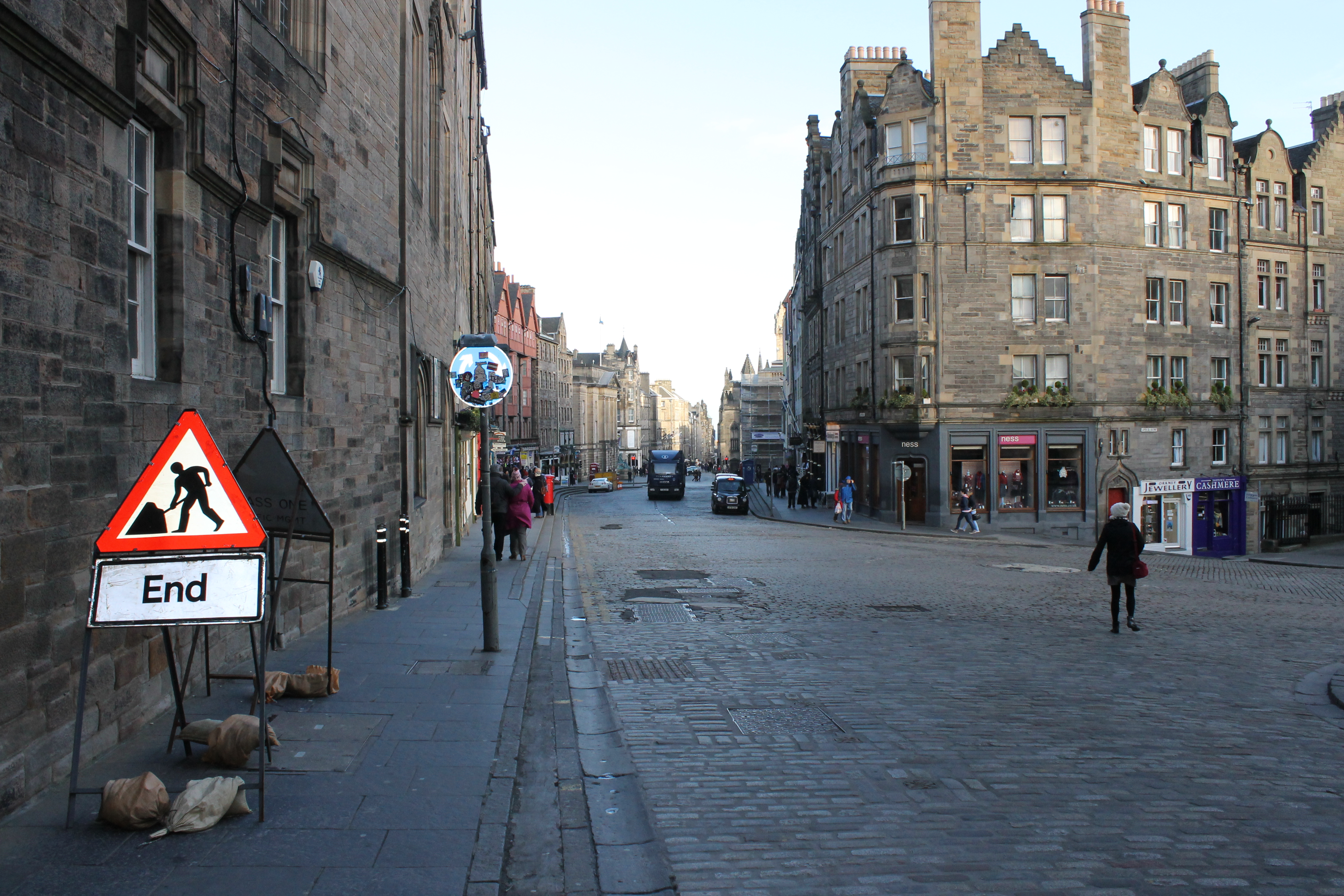 Looking down the Royal Mile/Lawnmarket, Edinburgh